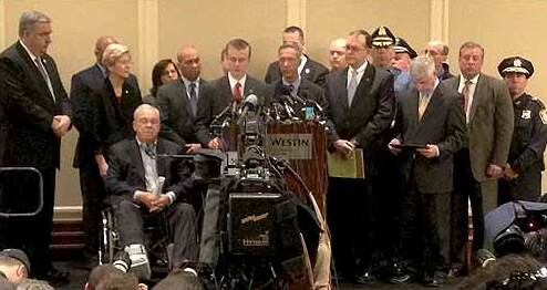 Richard DesLauriers, the special agent in charge at the FBI's Boston Field Office, addresses members of the press in April 2013.